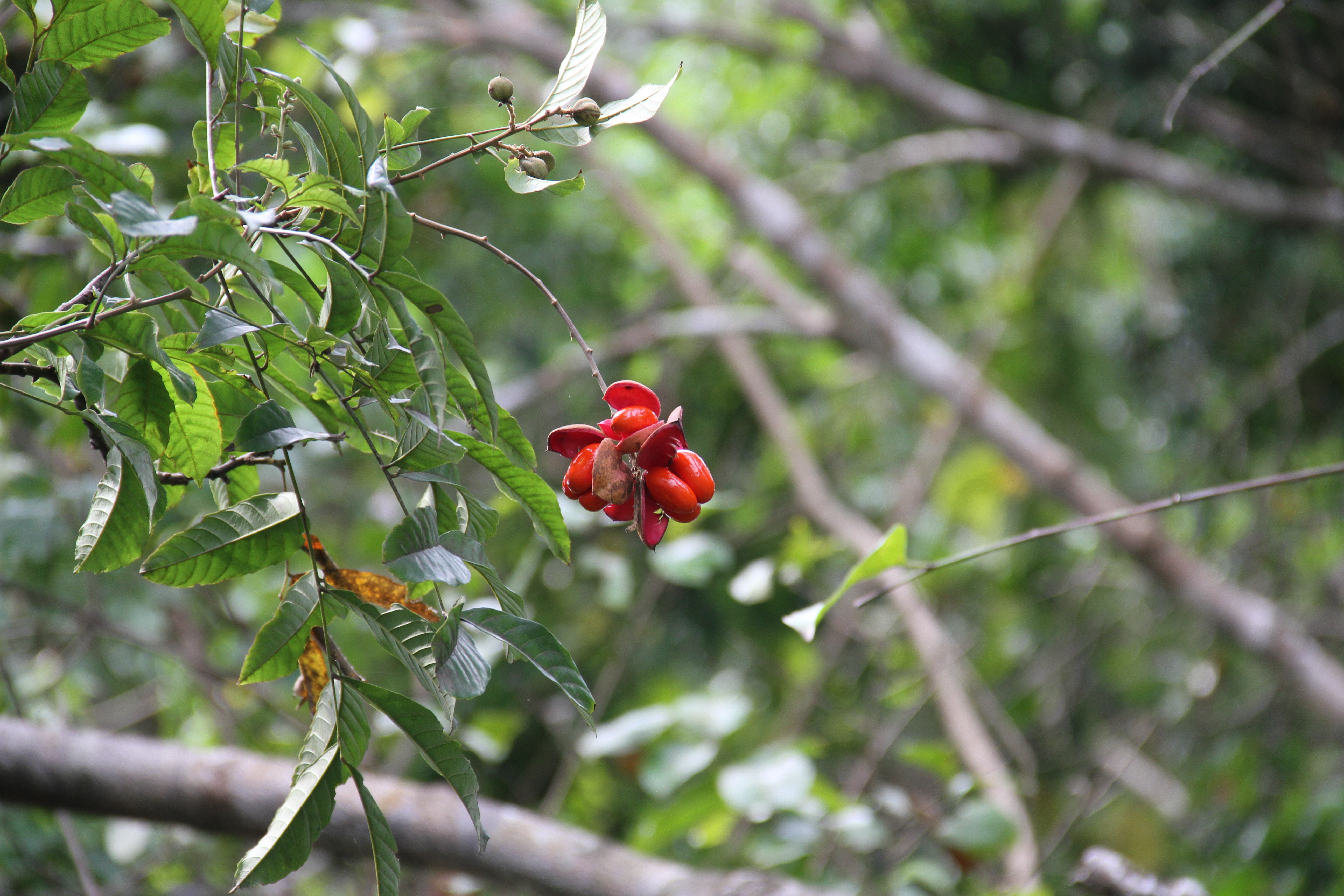 Lychnodiscus reticulatus in Bioko, December 2013 The making of this document was supported by the Community-Budget of Wikimedia Germany.